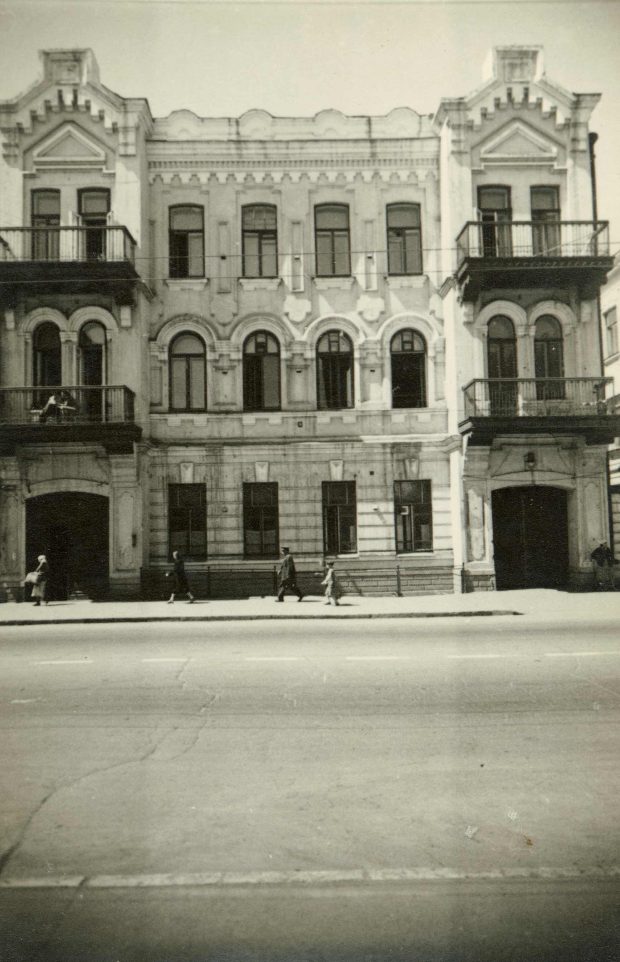 The Australian Legation in Kuibyshev in 1943, where the Soviet Government was stationed during the early part of the war. The town has reverted to its earlier name of Samara.